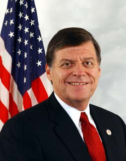 Tom Cole, member of the United States House of Representatives.